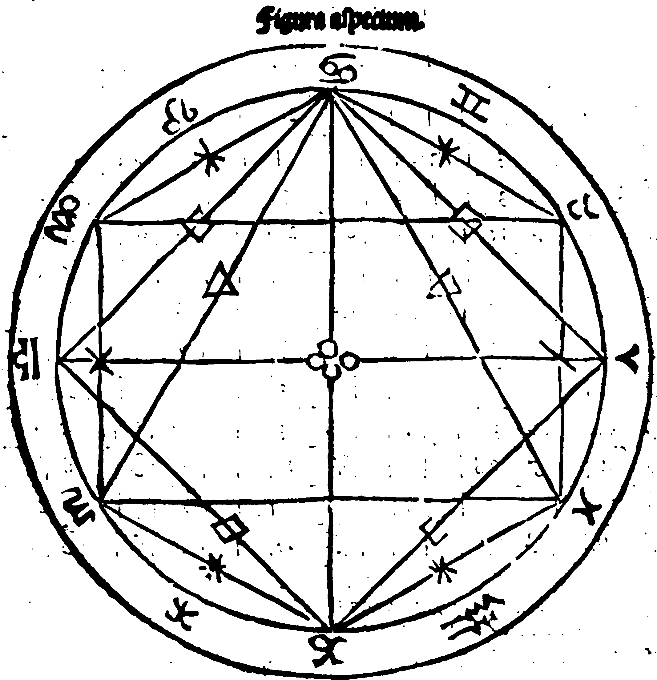 Figure describing the astrological aspects.